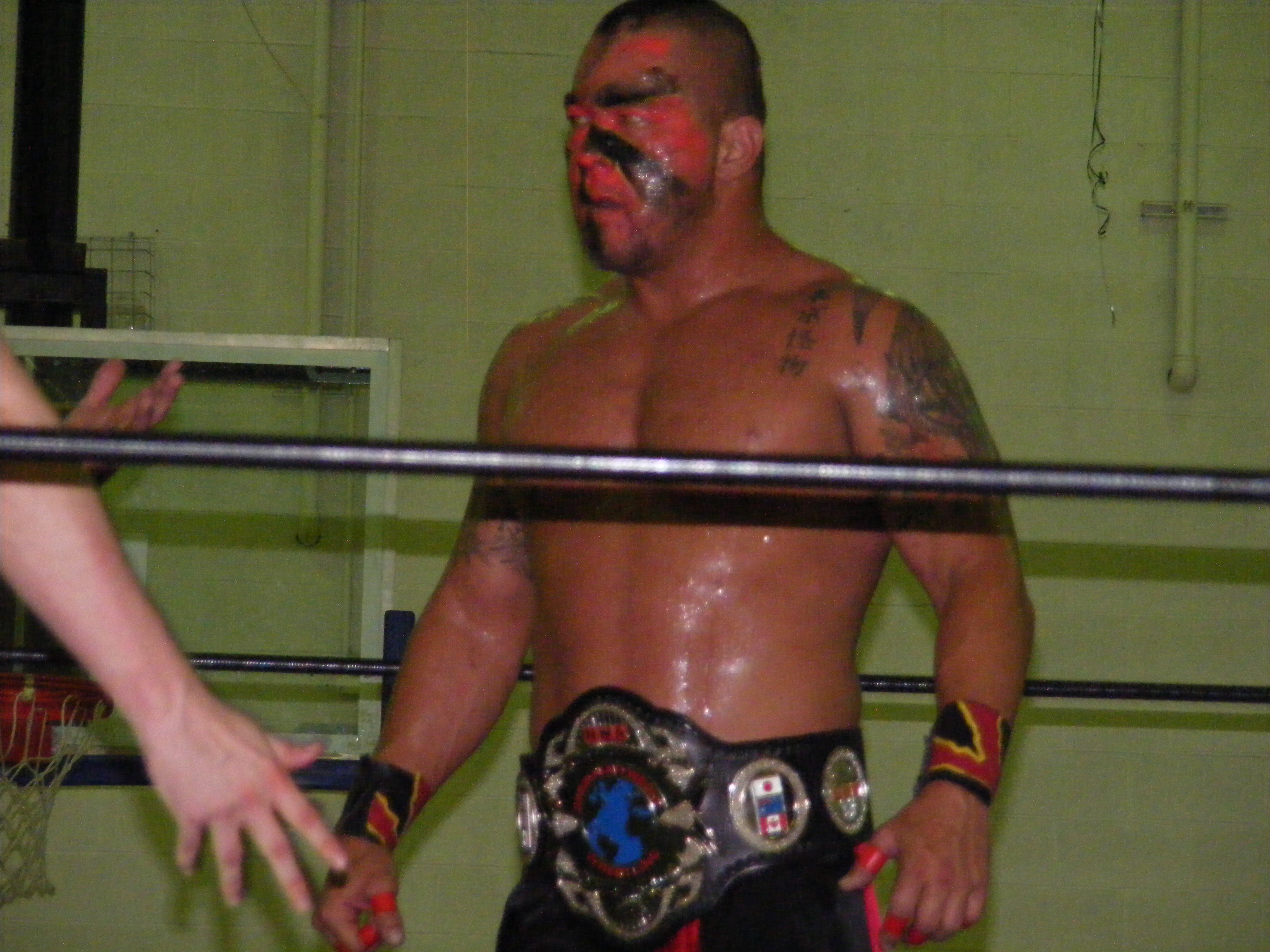 Professional wrestler Kahagas at a TSW event.